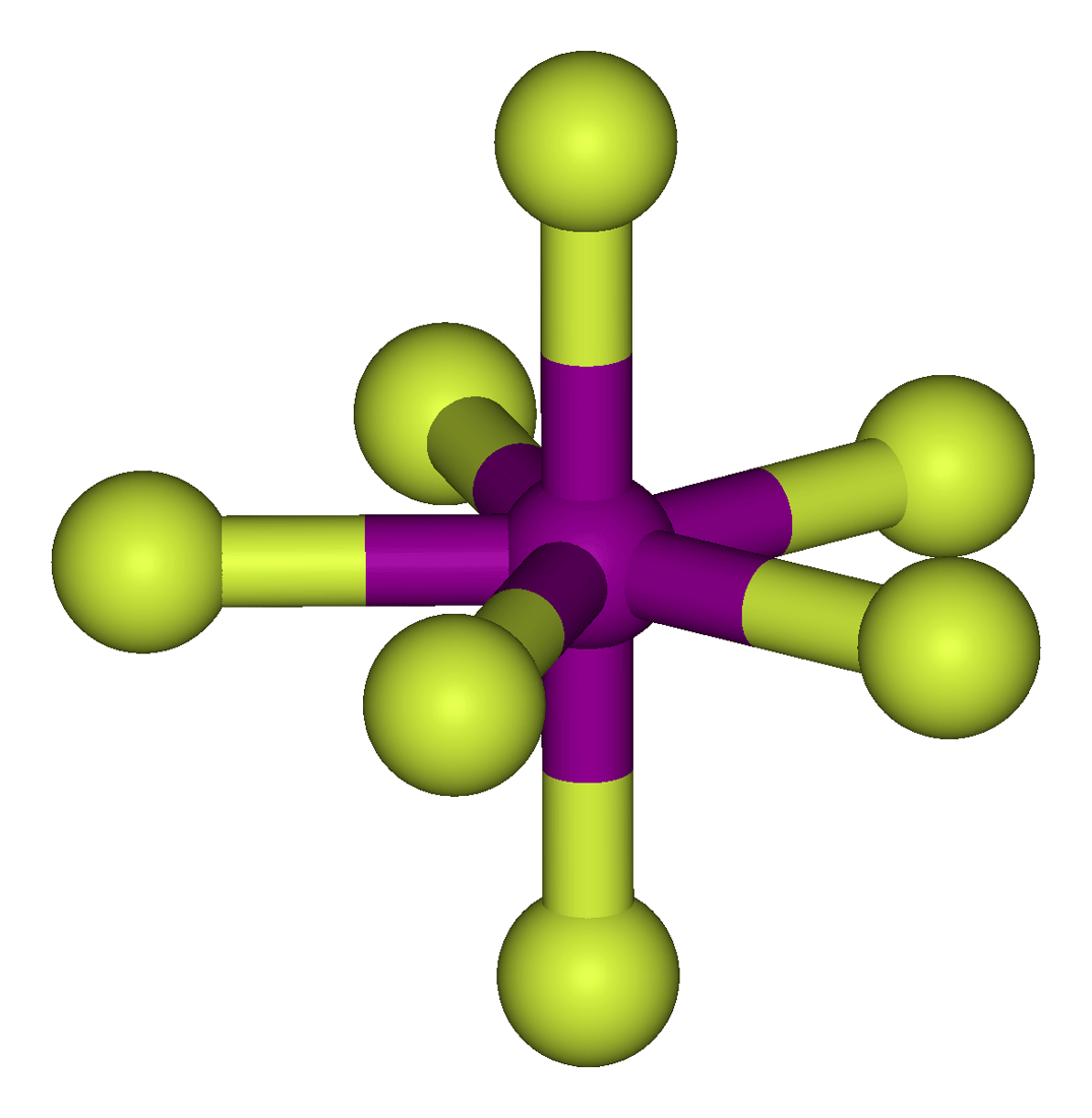 3D render of the structure of a Iodine-heptafluoride molecule.